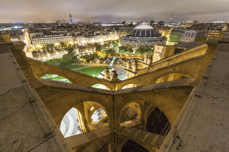 Symmetry of the church of St. Eustache night overlooking the roofs of Paris